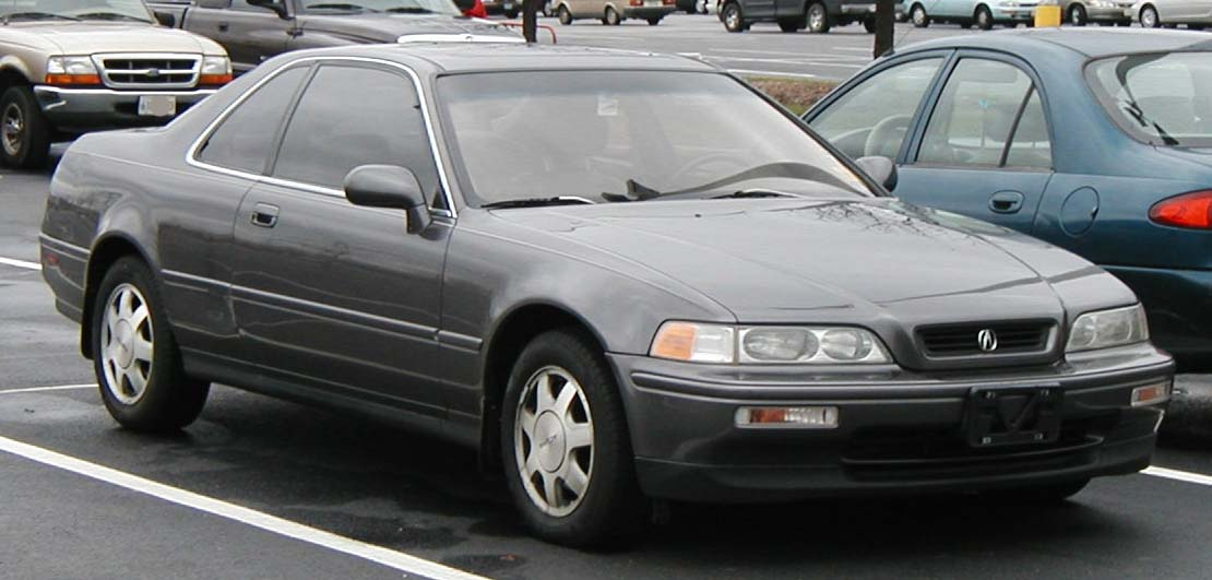 1991-1995 Acura Legend coupe photographed in USA.